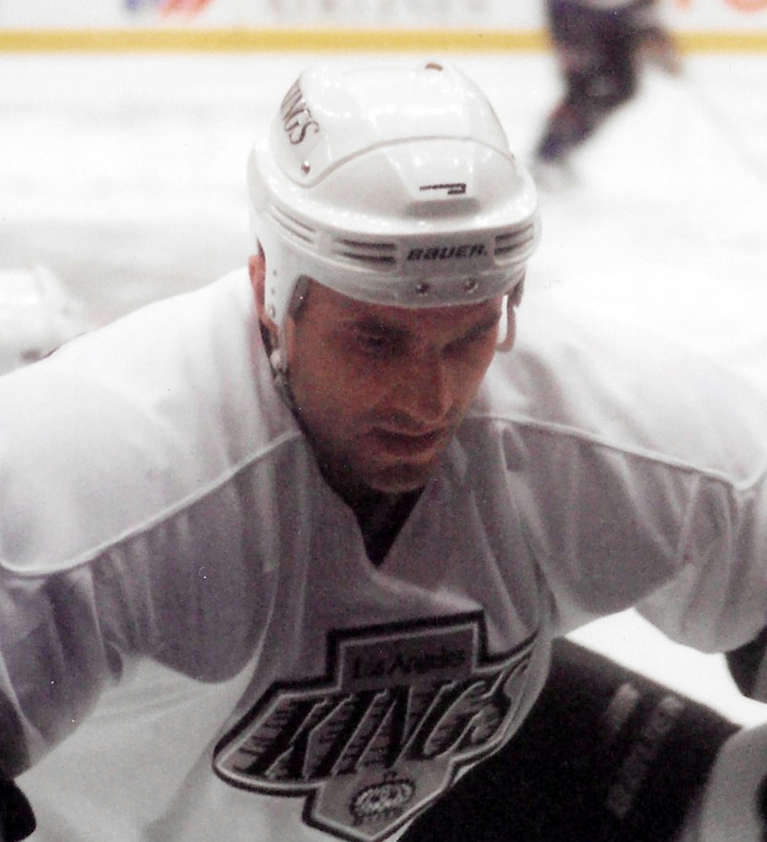 Tsyplakov stretching during warm-ups before a home game with the Los Angeles Kings.